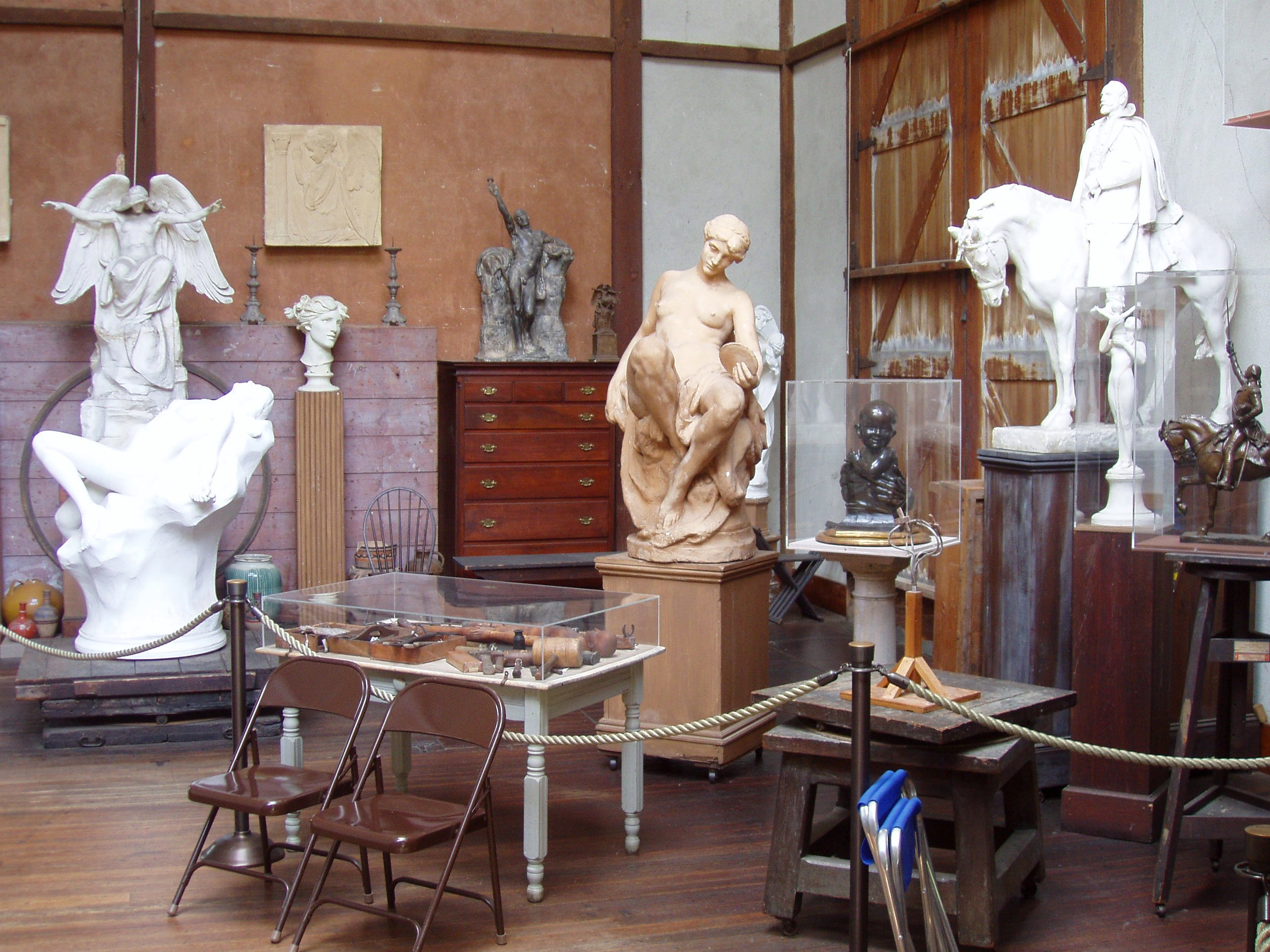 Chesterwood, summer estate of American sculptor Daniel Chester French, in Stockbridge, Massachusetts, USA. Studio interior.